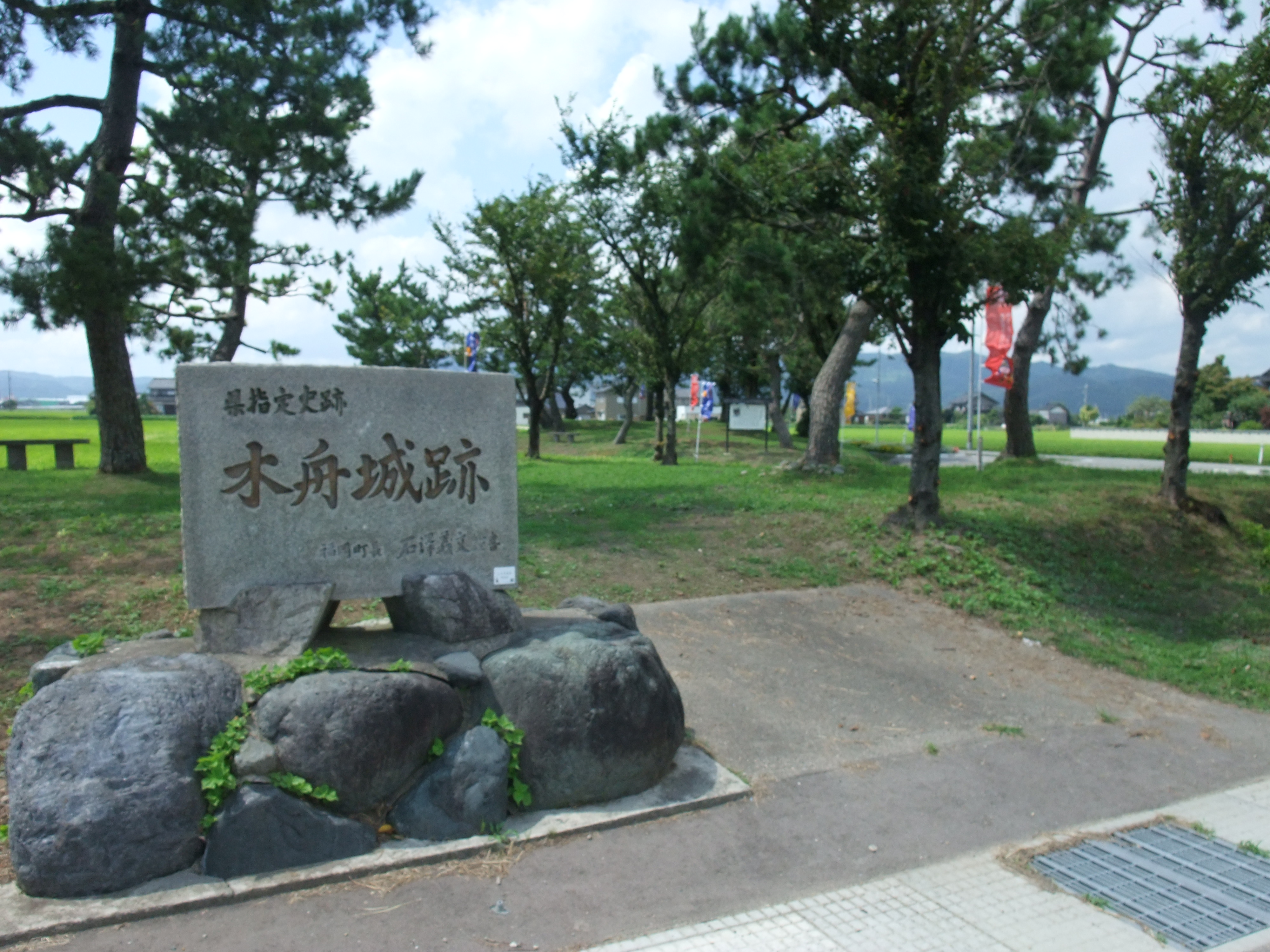 photo of Kihune Castle (Toyama-Japan)